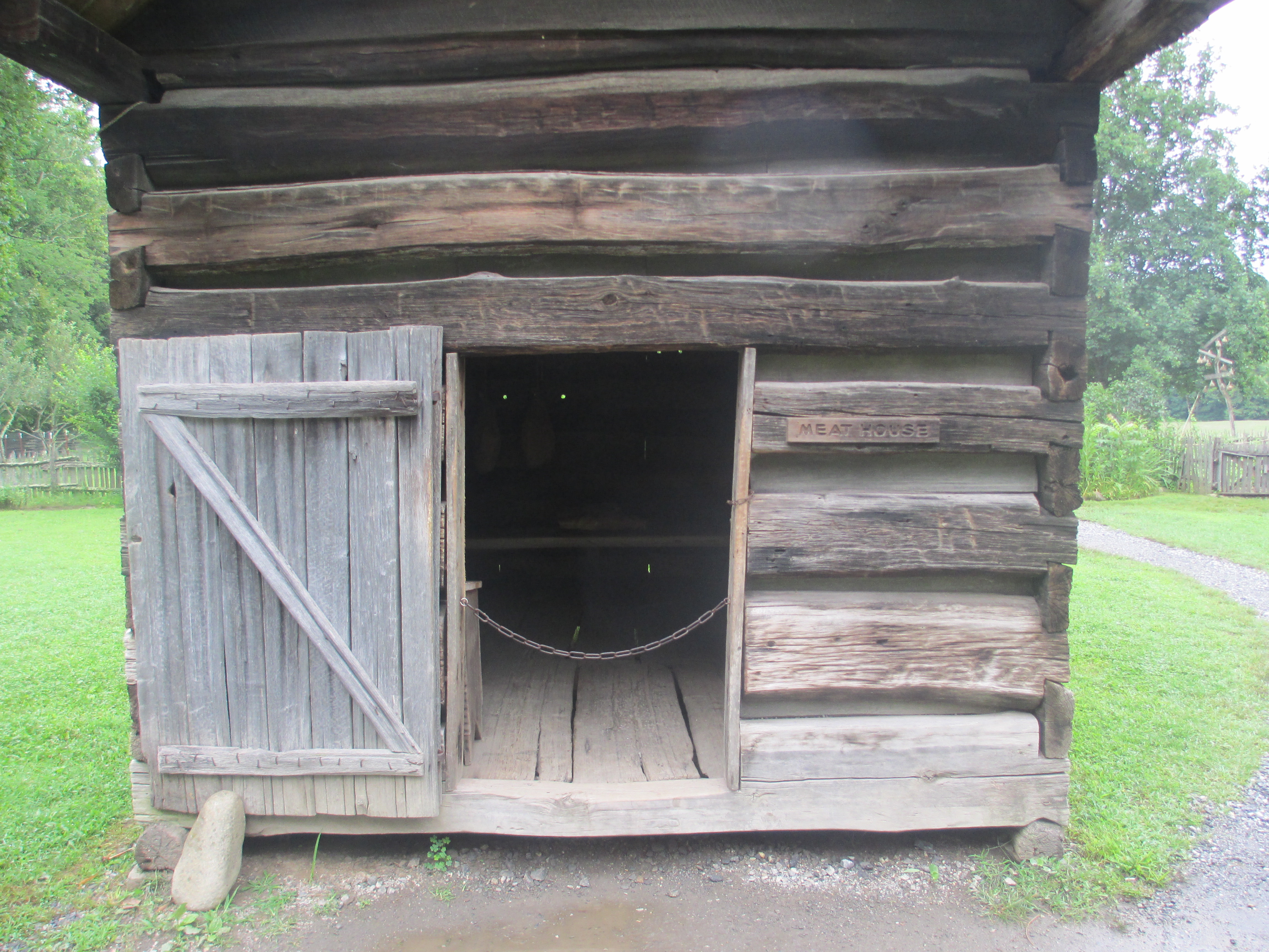 I took photo of meat house at Mountain Farm Museum, with Canon camera.